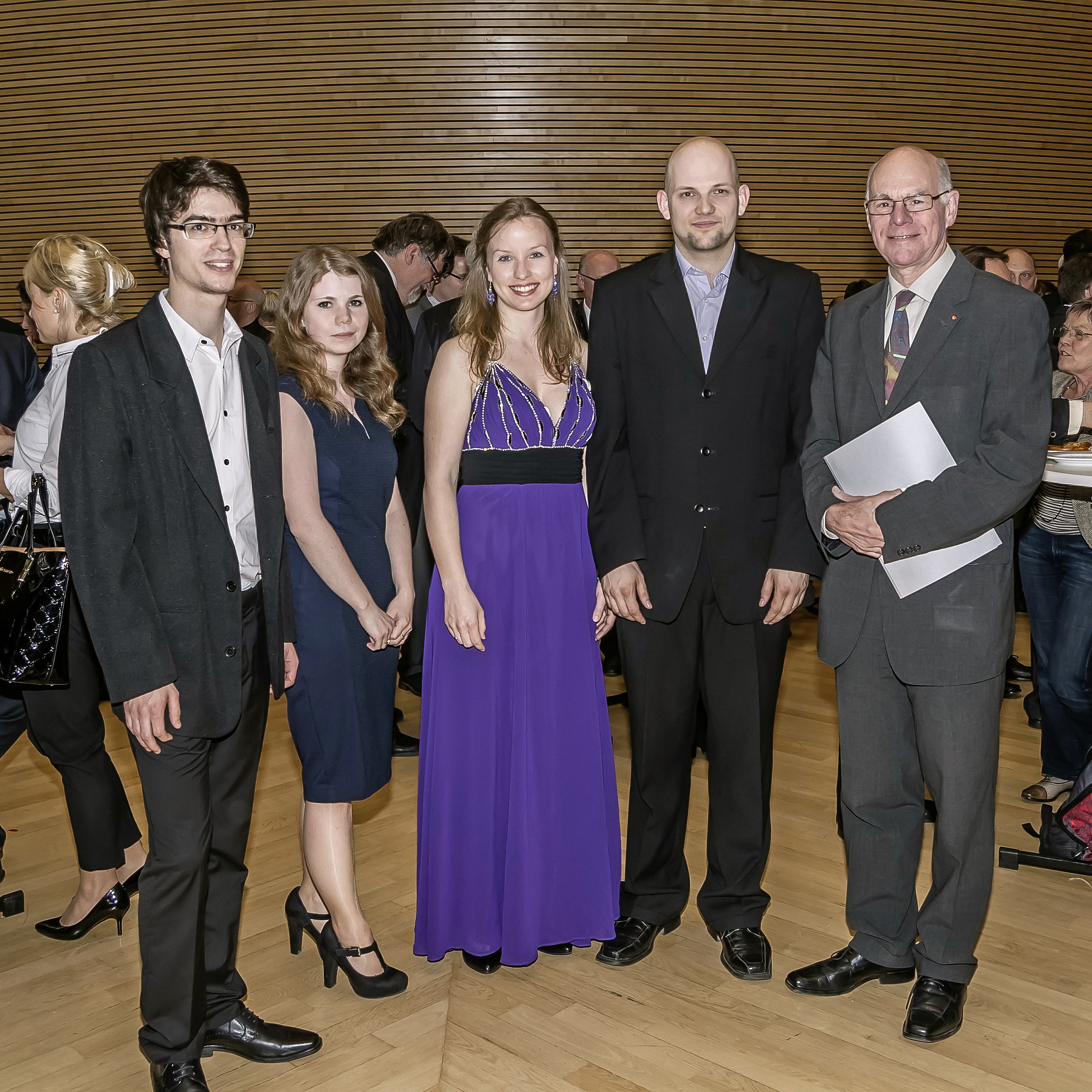 Moltopera in the Dresden Parliament: András Emszt, Renáta Burghardt, Renáta Göncz, László Ágoston and Prof. Dr. Norbert Lammert, President of the German Parliament